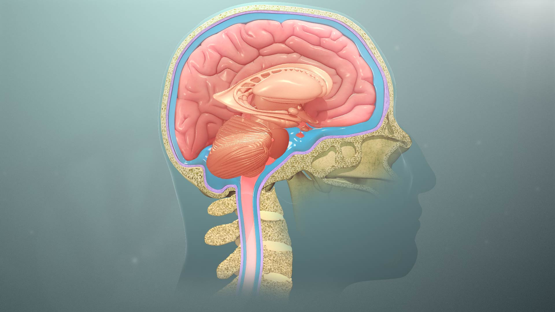 The CNS organs- brain and spinal cord- are physically protected by meninges, skull bones and spinal vertebrae, while chemically shielded by the blood-brain barrier.